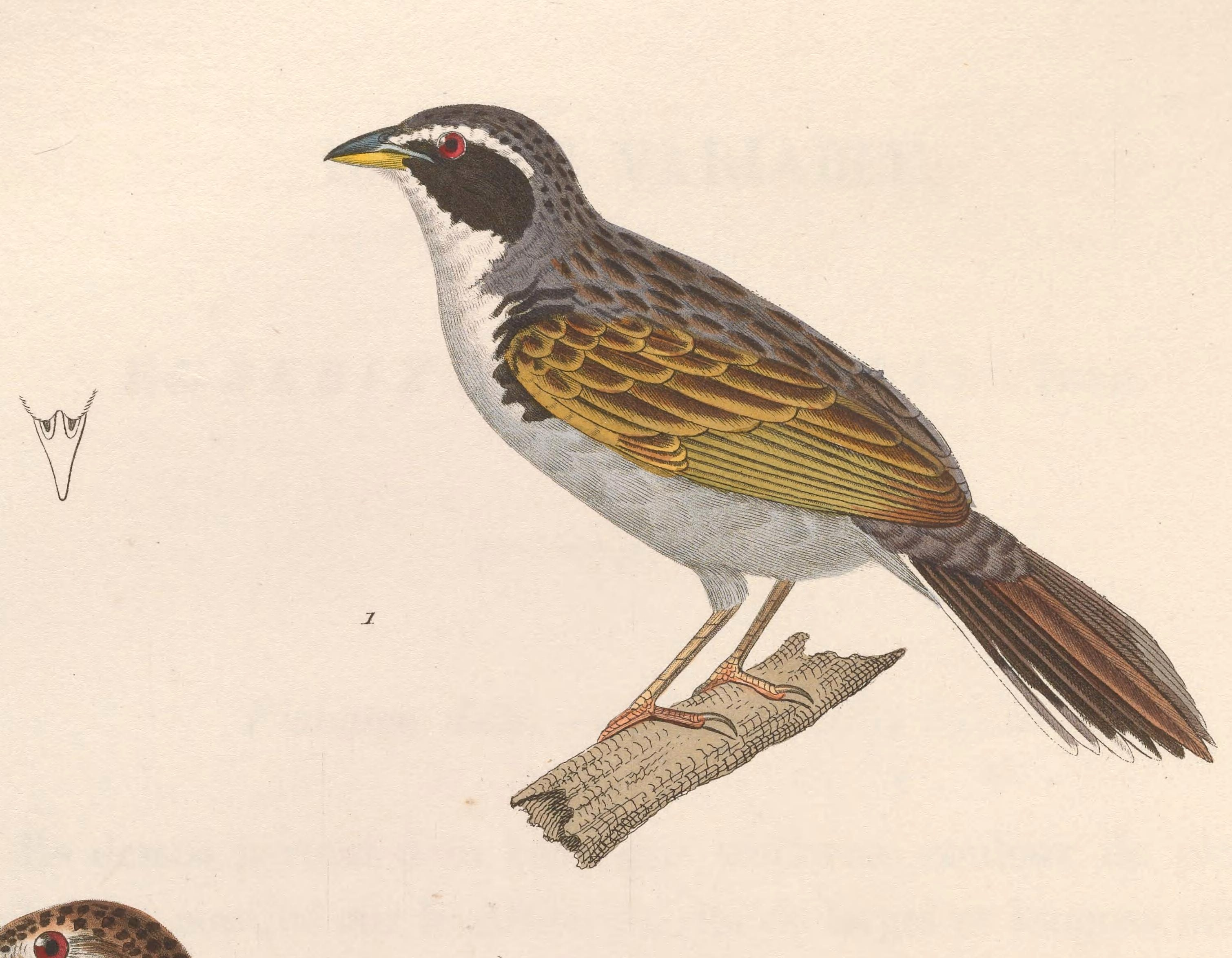 « Emberizoides melanotis » = Coryphaspiza melanotis (Black-masked Finch) - male